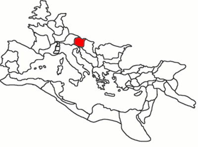 Roman Empire with Noricum highlighted